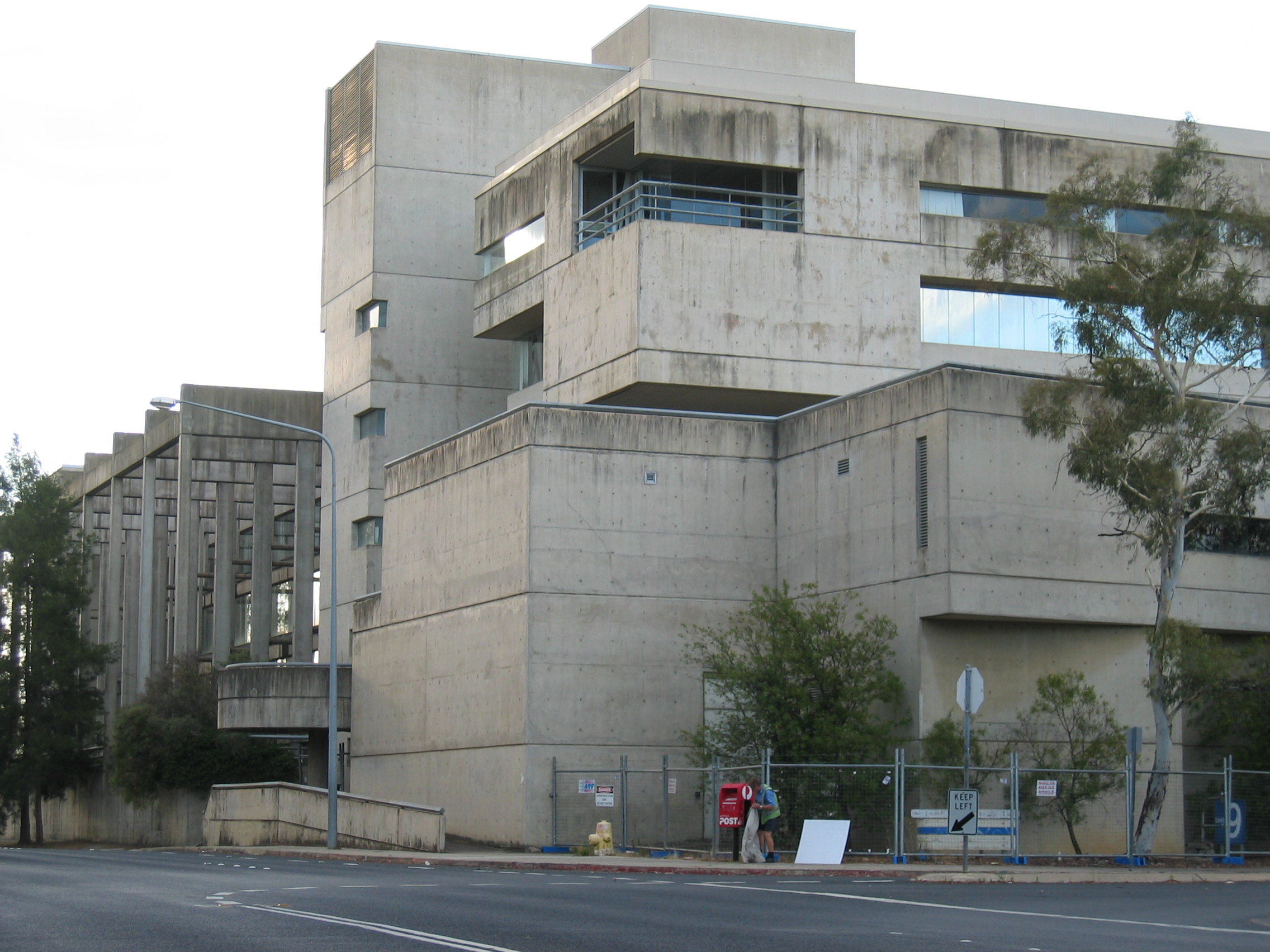 Cameron Offices from the corner of College Street and Chandler Way, Belconnen, Australian Capital Territory. The building has been cordoned off in preparation for demolition work. A postal worker happened to be emptying a mail box when the photo was taken. Photo taken by User:Adz on 27 December 2006. Source:Own work.